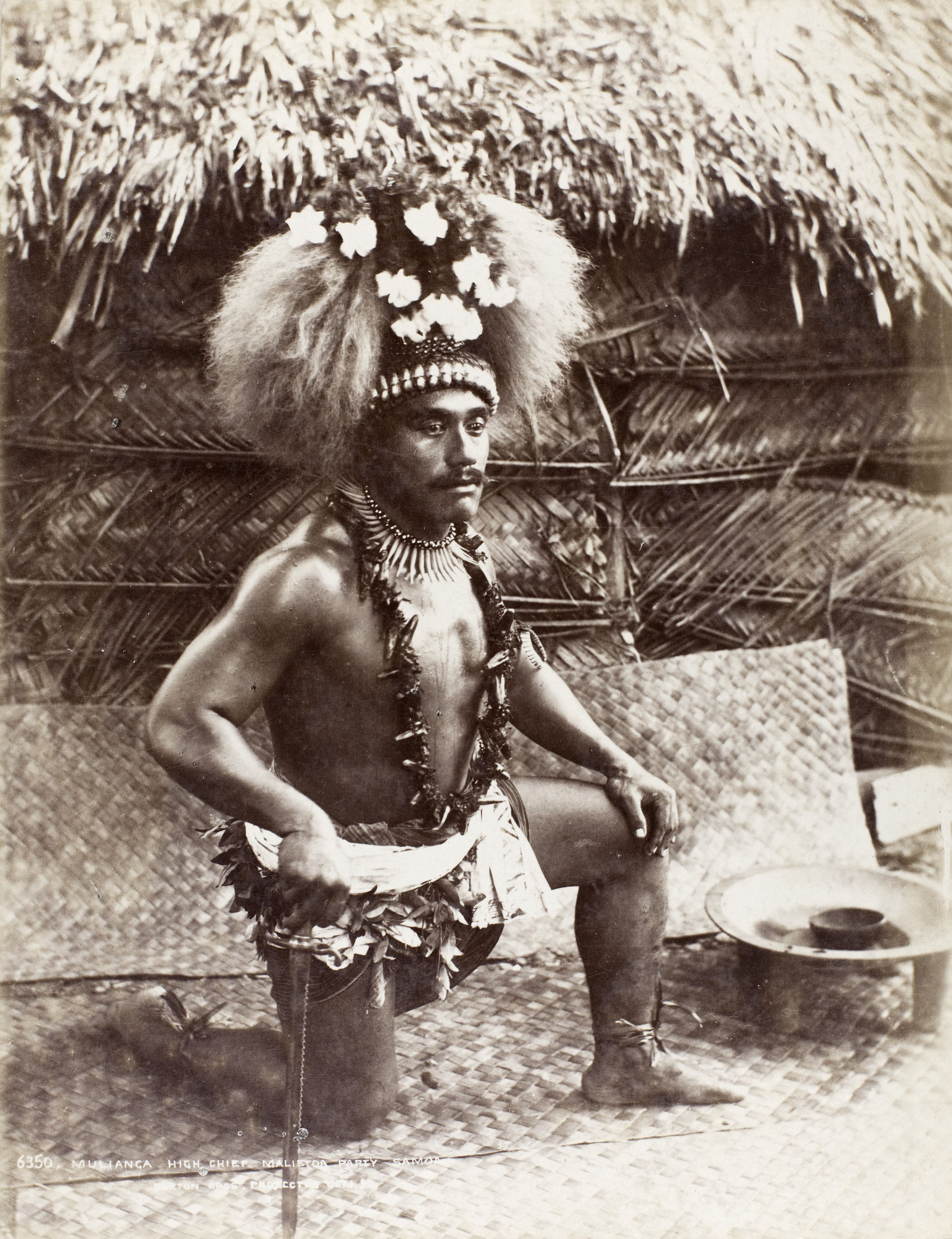 Mulianga, High Chief, Malietoa Party, Samoa.